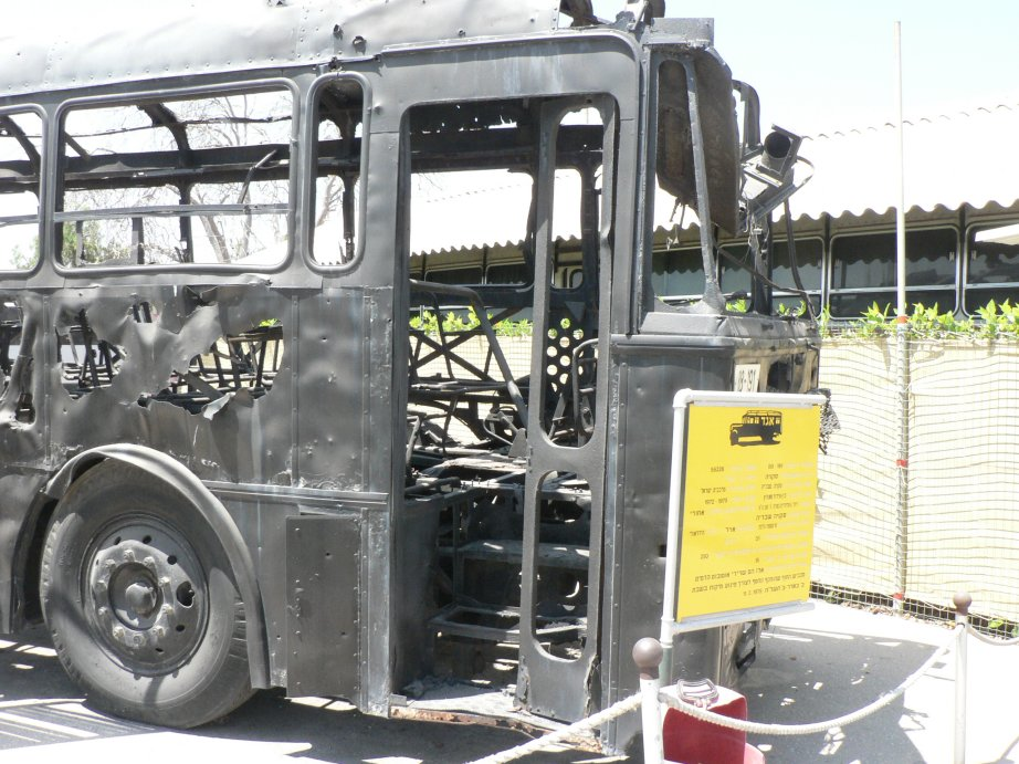 The charred remains of an Israeli bus, attacked by Palestinian terrorists in 1978 Coastal Road Massacre. (please avoid using the picture in offensive manner) Author: MathKnight